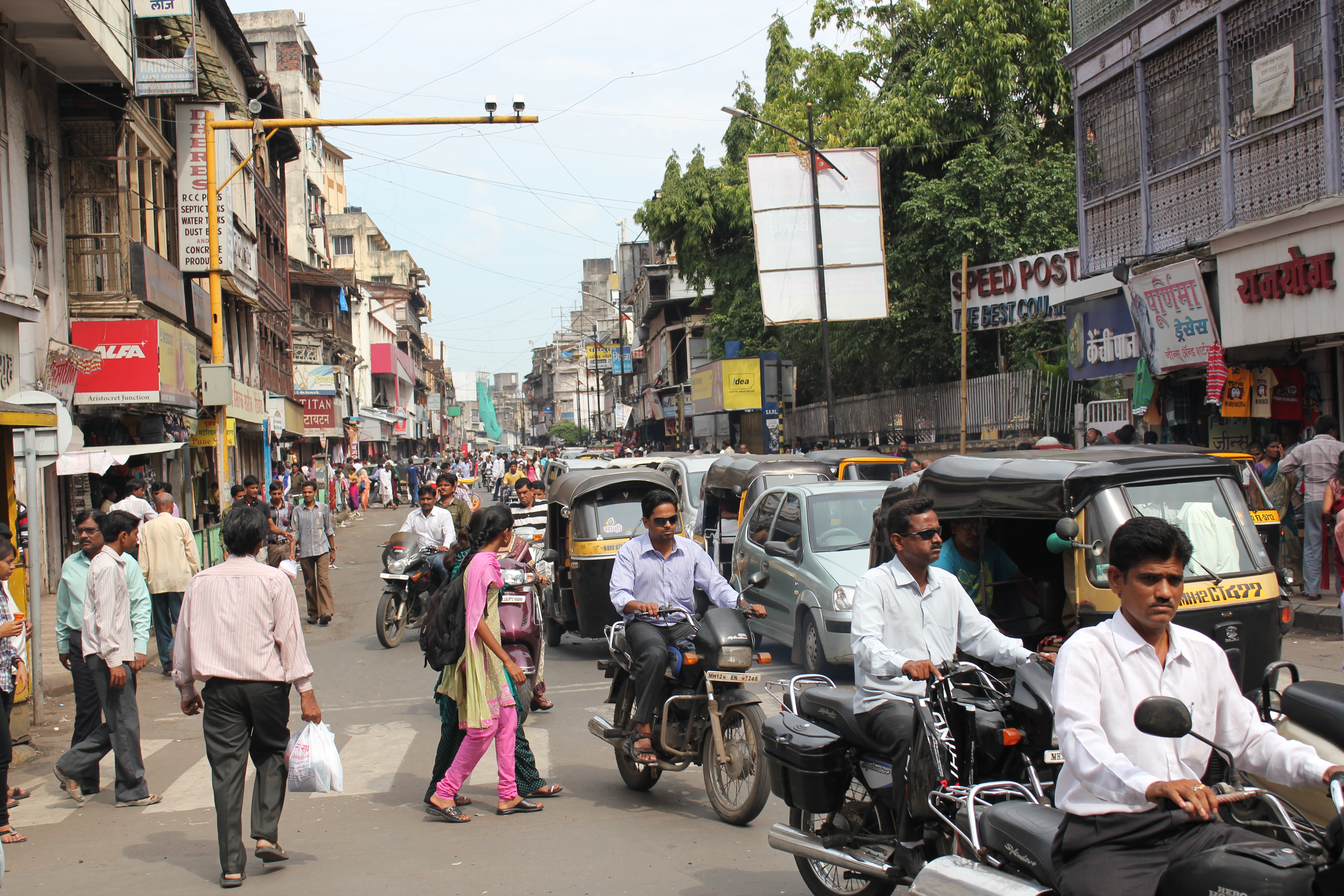 In Pune